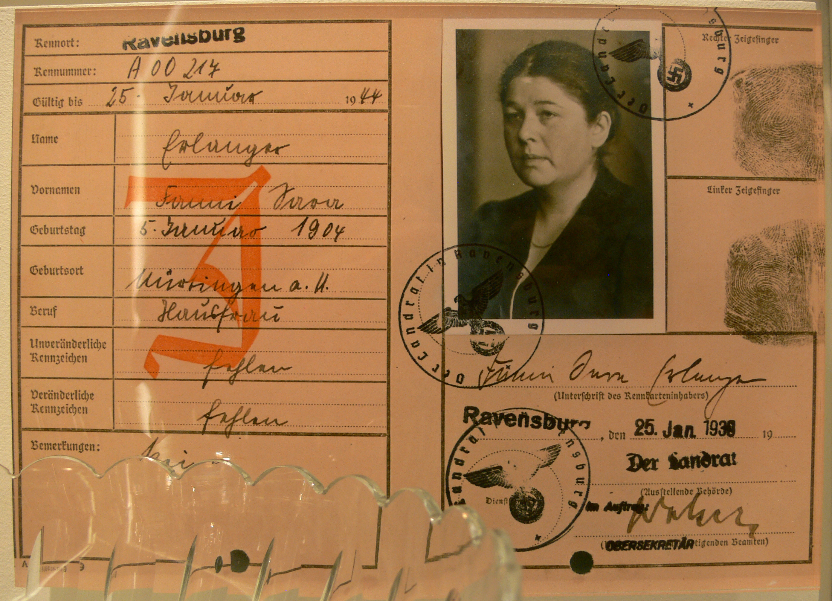 Museum Humpisquartier, Ravensburg "Judenpass" für Fanny Erlanger, Ravensburg 1938 Museum Humpis-Quartier Native nameMuseum Humpis-QuartierLocationRavensburg, GermanyCoordinates47° 46′ 50″ N, 9° 36′ 56″ E Established2009Website control VIAF: 128828875 LCCN: nb2007020847 GND: 4565586-8 WorldCat